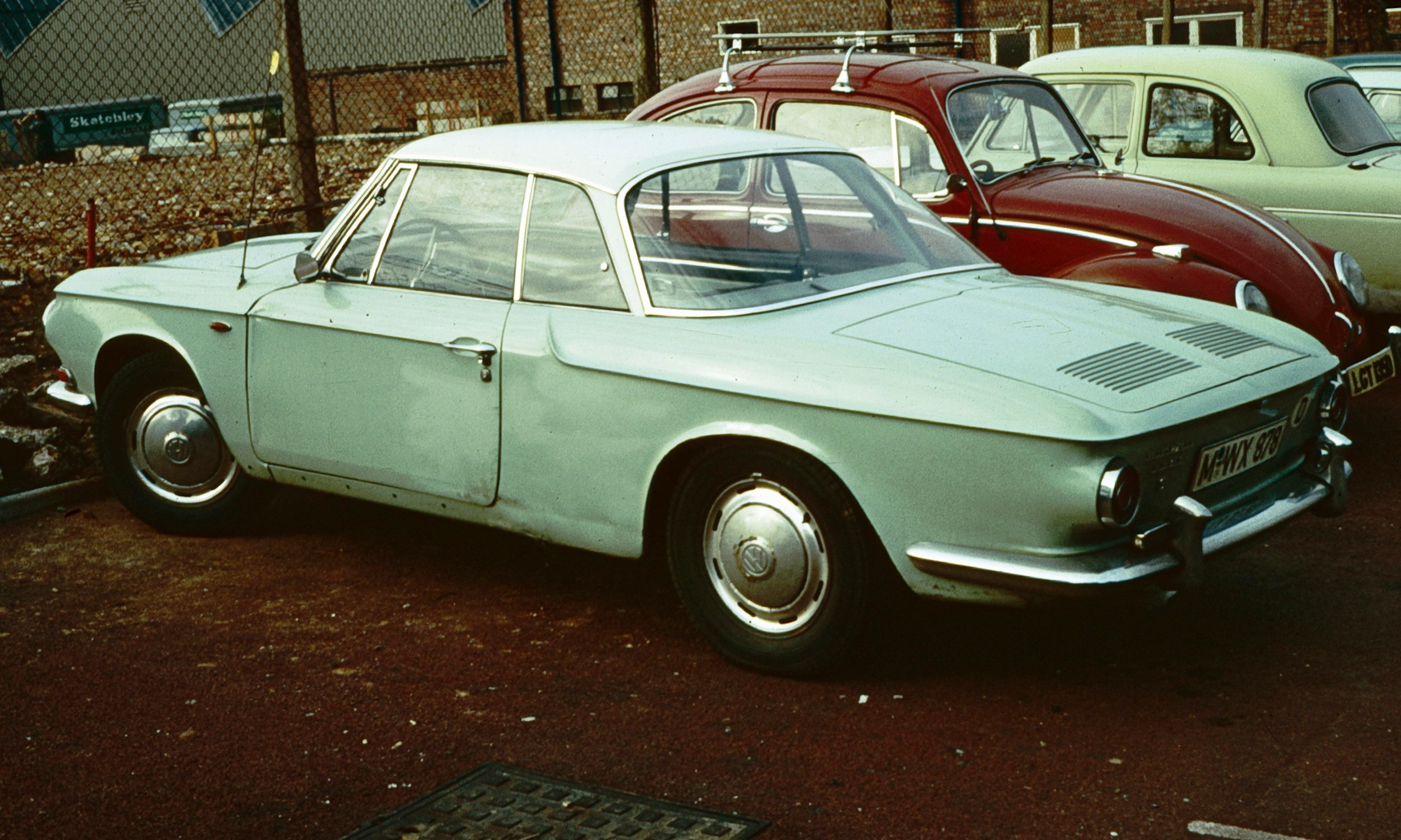 Volkswagen Karmann Ghia Typ 2 photographed in BBA works car park on the edge of Walthamstow